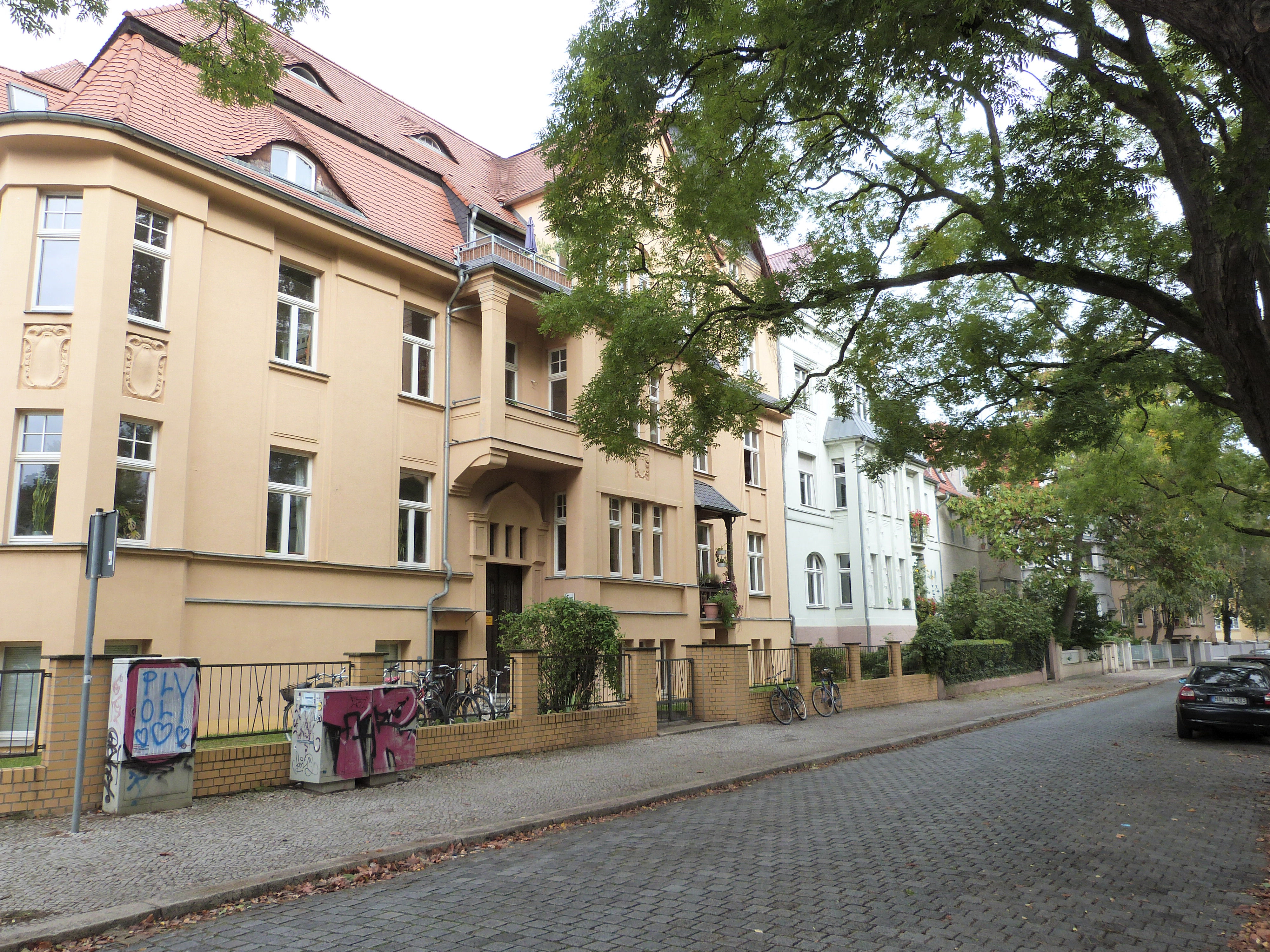 Ernst-Schneller-Strasse in Halle (Saale), Saxony-Anhalt